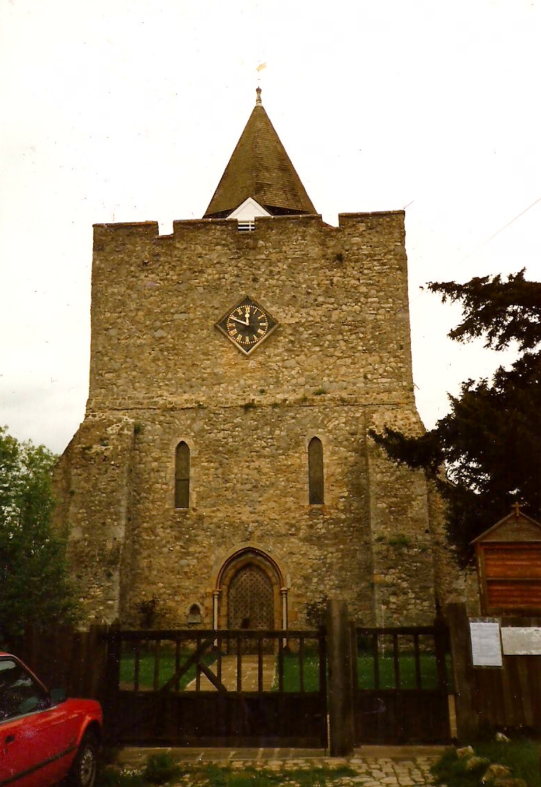 St. Nicholas' Church, Leeds